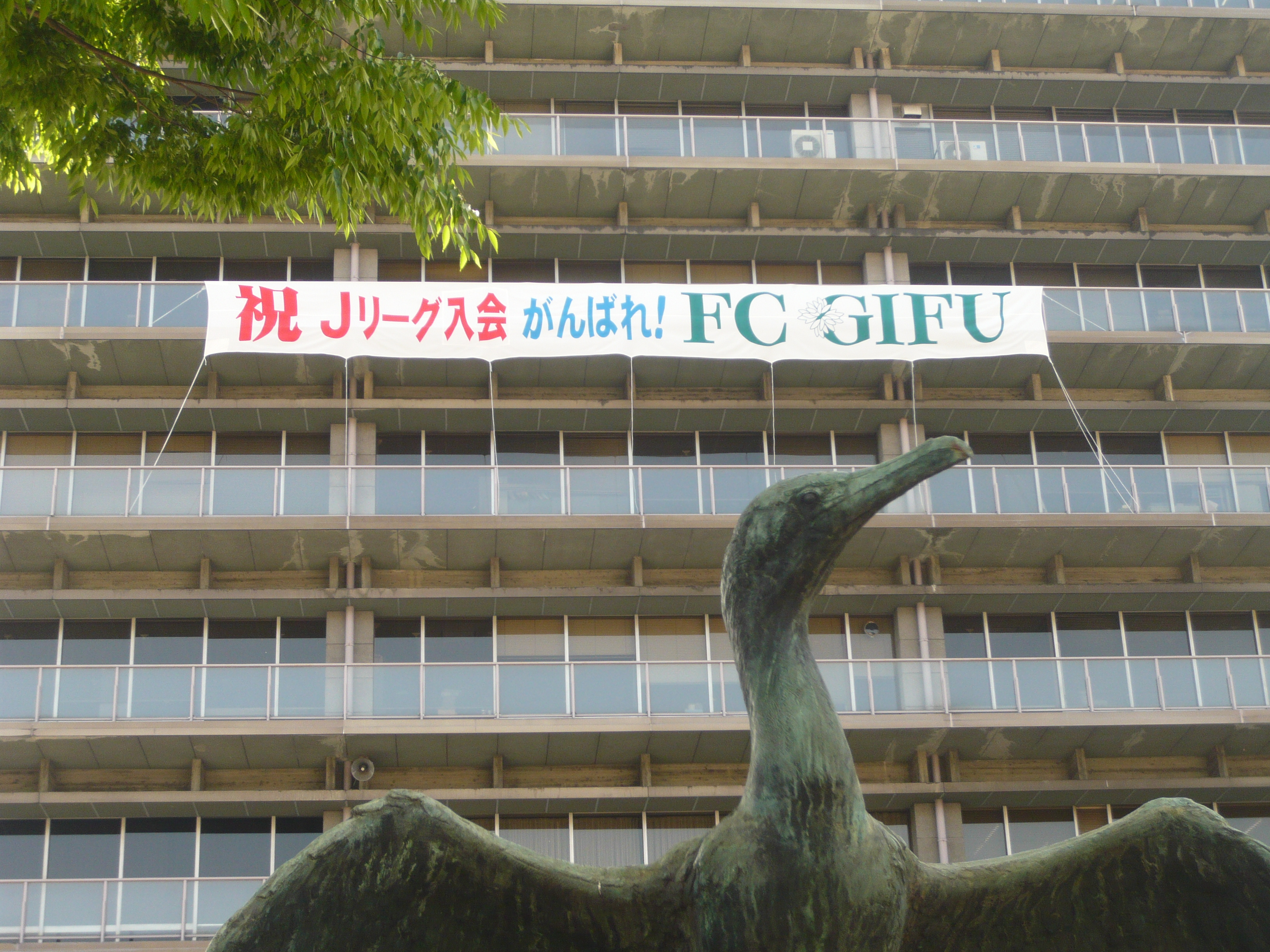 Gifu City Hall, Gifu, Gifu, Japan